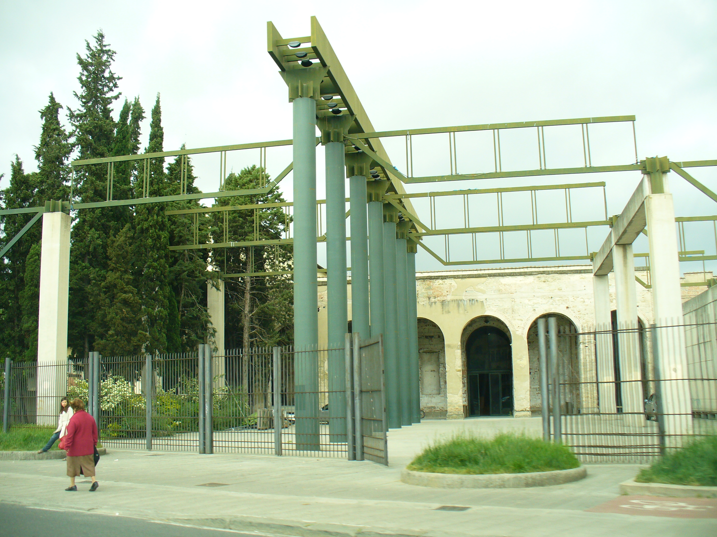 Stazione Leopolda